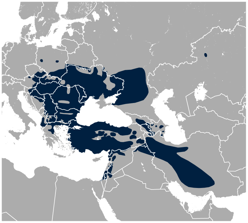 Geographical distribution of the Syrian Woodpecker Dendrocopos syriacus. The map was created using the Generic Mapping Tools, GMT, version 5.1.2.